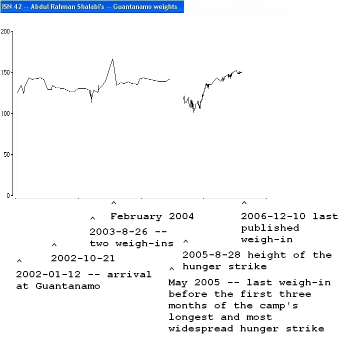 Guantanamo captive Abdul Rahman Shalabi has been identified as one of the camp's most determined hunger strikers. The DoD has published 217 weigh-in for him between 2002-01-12 -- the day after his arrival, to 2006-12-10. Most of those weigh-in are from after 2005-8-28, his first weigh-in after the longest hunger-strike began.